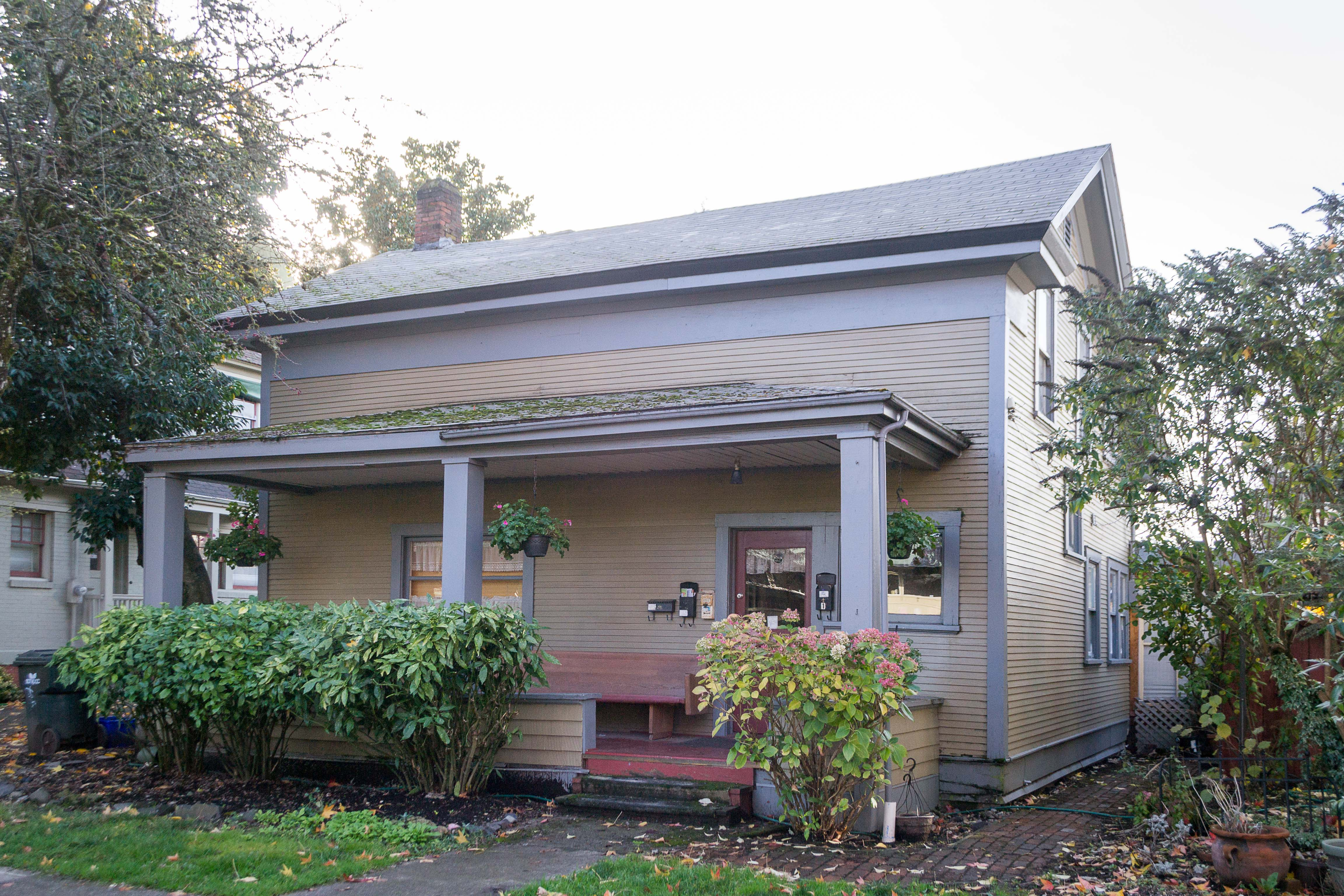 The oldest residential structure in Eugene, Oregon, and one of six remaining Greek Revival houses in Lane County, the Daniel and Catherine Christian House was constructed c. 1855.